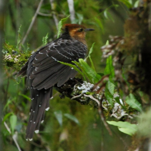 Pavonine Cuckoo at Intervales State Park - Ribeirão Grande - SP - Brazil